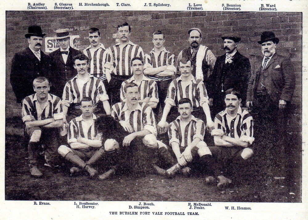 1898–99 Burslem Port Vale F.C. squad photo, names of players on picture